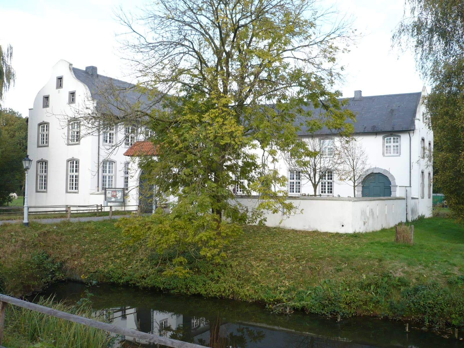 Dorenburg castle in the outdoor museum Grefrath, Germany This image shows a heritage building in Germany, located in the North Rhine-Westphalian city Grefrath (no. Gr 10).